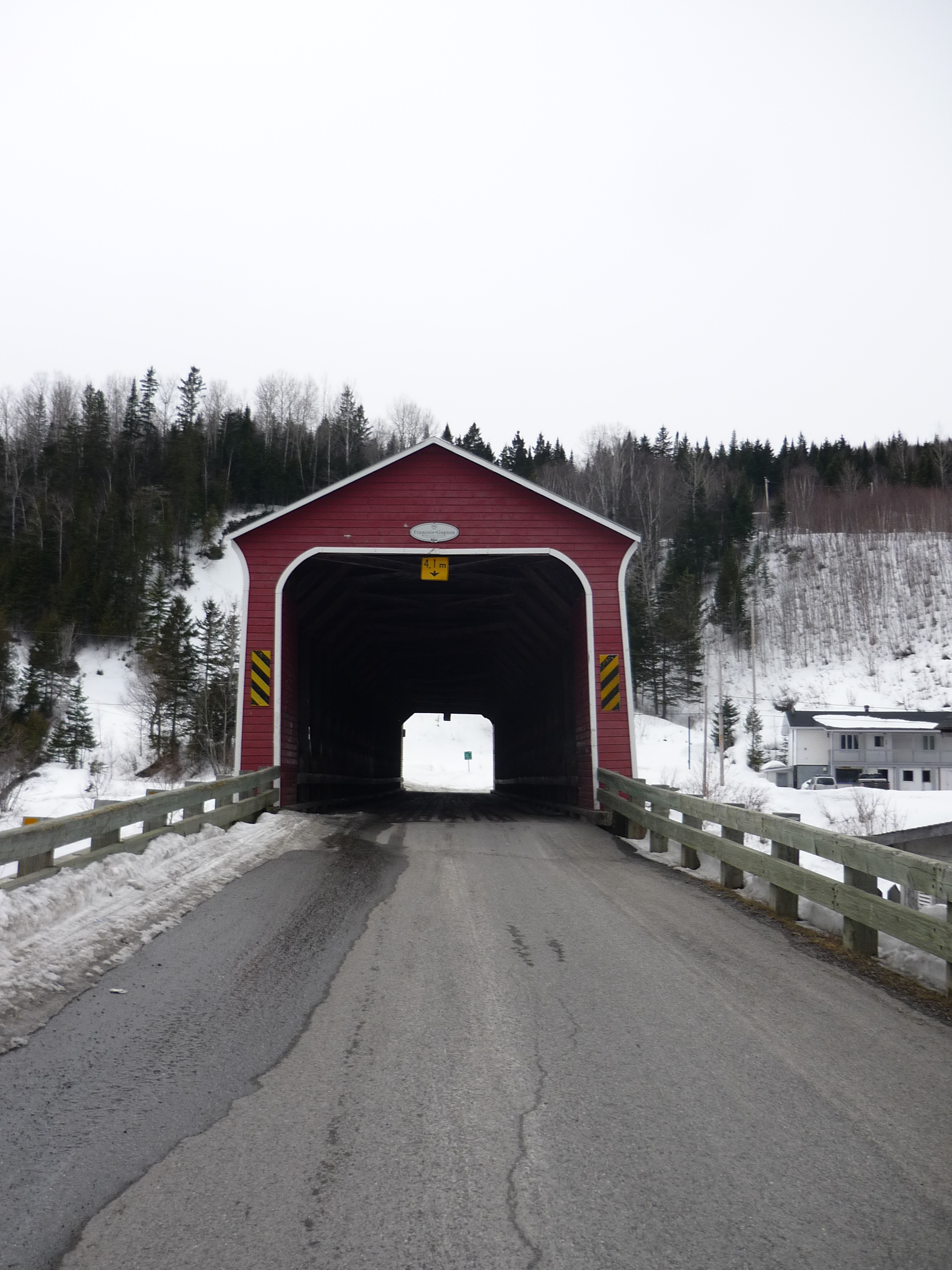 François-Gagnon Brigde at Saint-René-de-Matane, Quebec